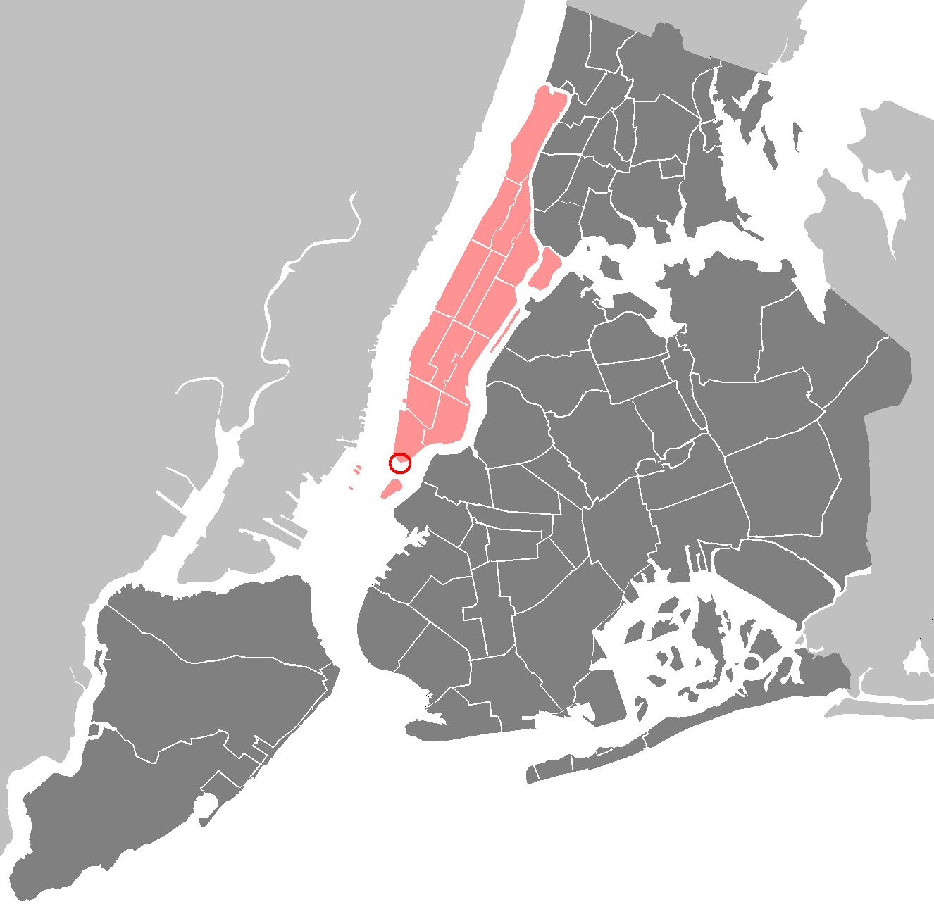 Maps of New York City: New York City - Manhattan - Battery Park.PNG